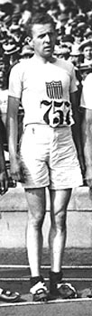 Tell Berna, athlet, Olympic Champion at the 1912 Olympic Games photography, adapted reproduction, no restrictions on use Copyright: free of charges